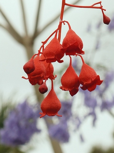 Brachychiton acerifolius (illawara) flowers with Jacaranda background